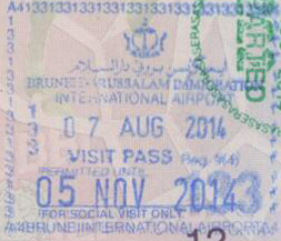 Brunei entry visa stamp